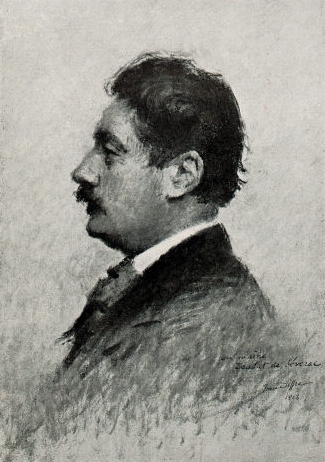 French composer Déodat de Séverac (1872-1921) by Jean Diffre (1864-1921)